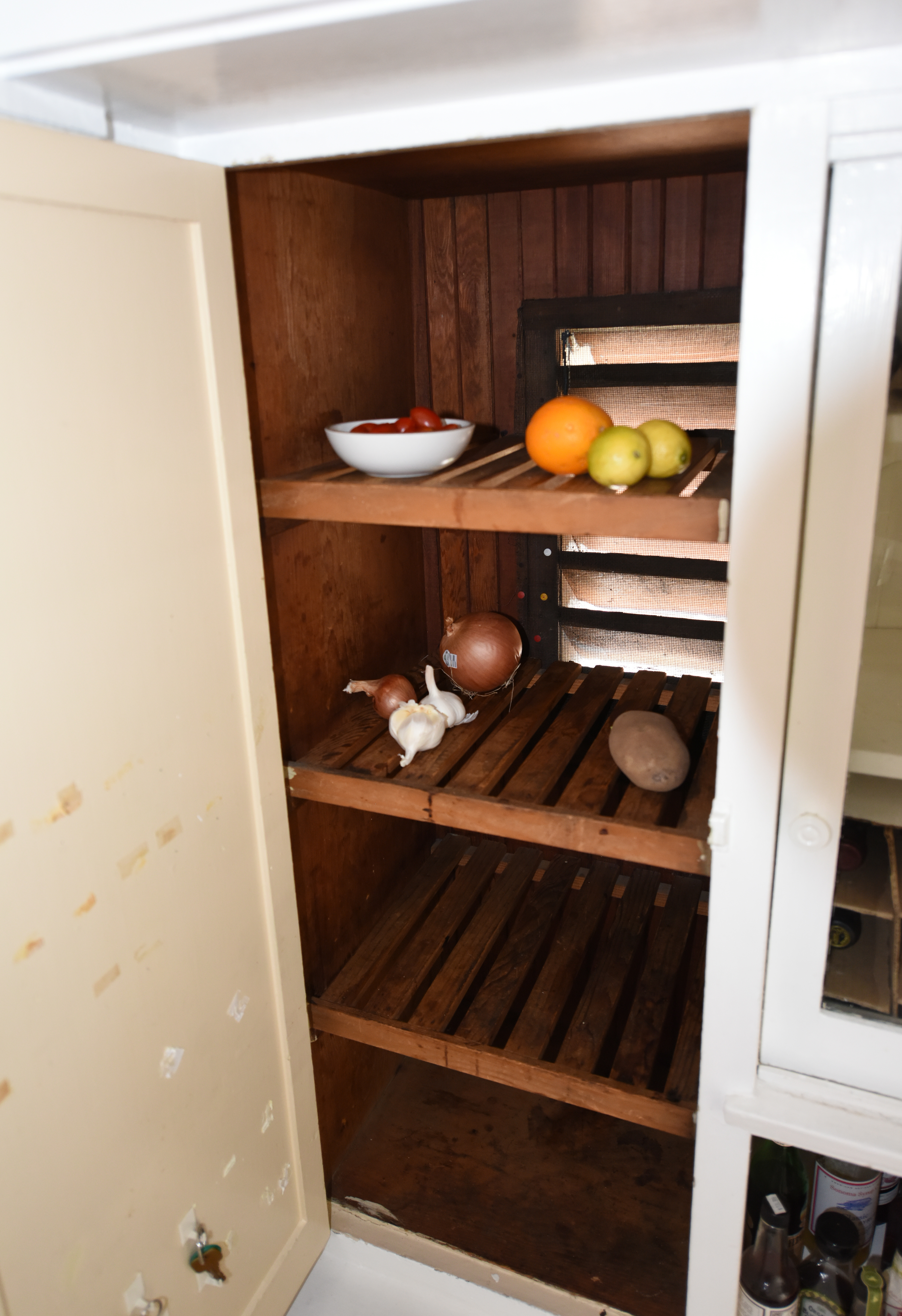 This is an interior photograph of a California Cooler with the door open. It is used to store perishable food items.